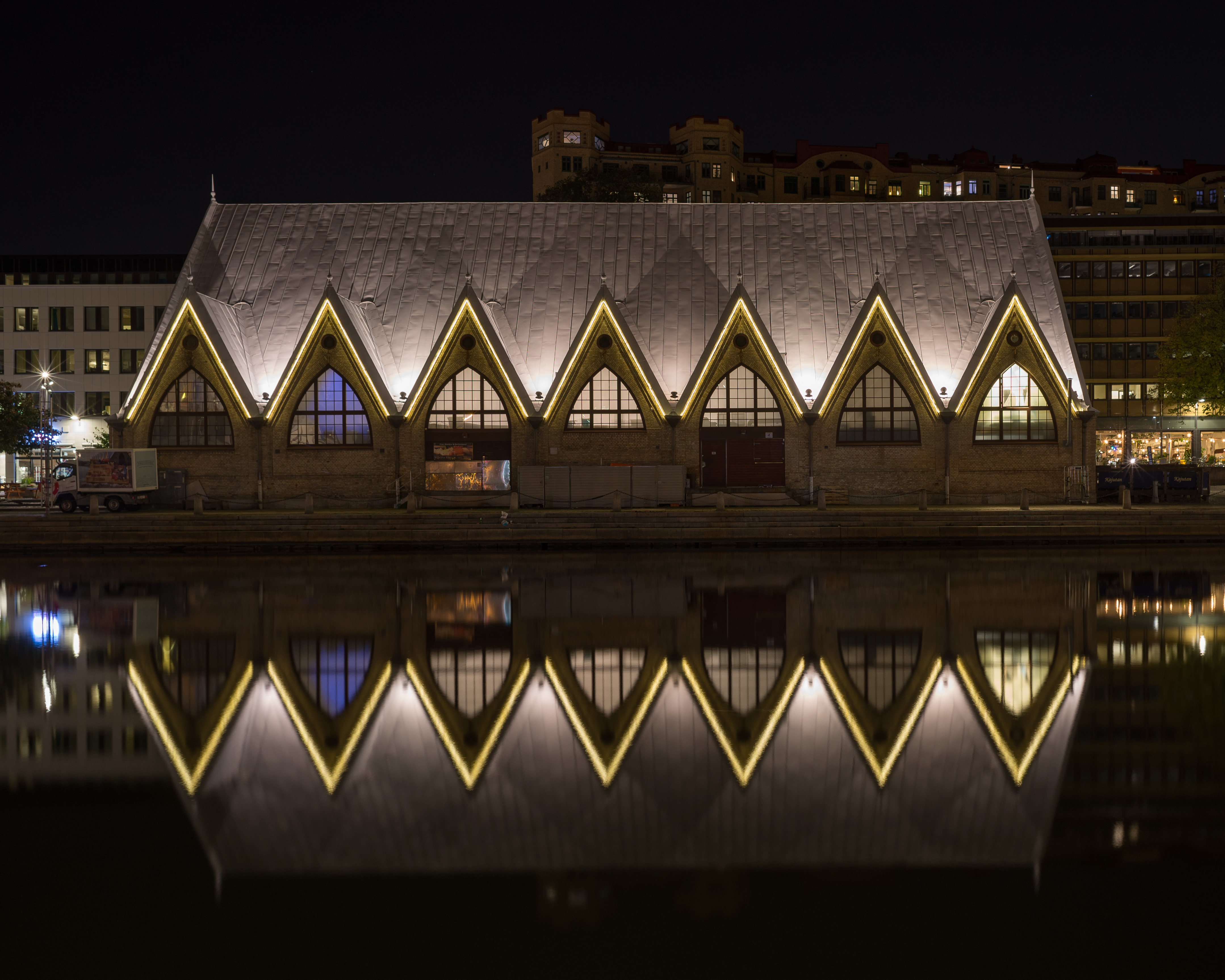 Historic fish market (known as feskekörka) in Gothenburg, Sweden.